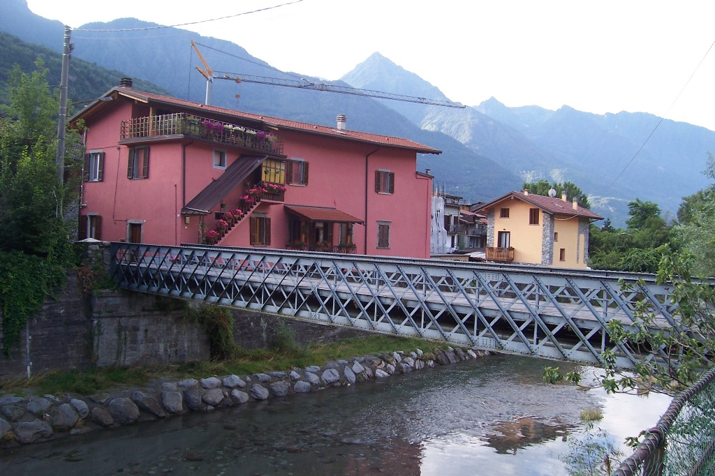 bridge, Capo di Ponte, Val Camonica